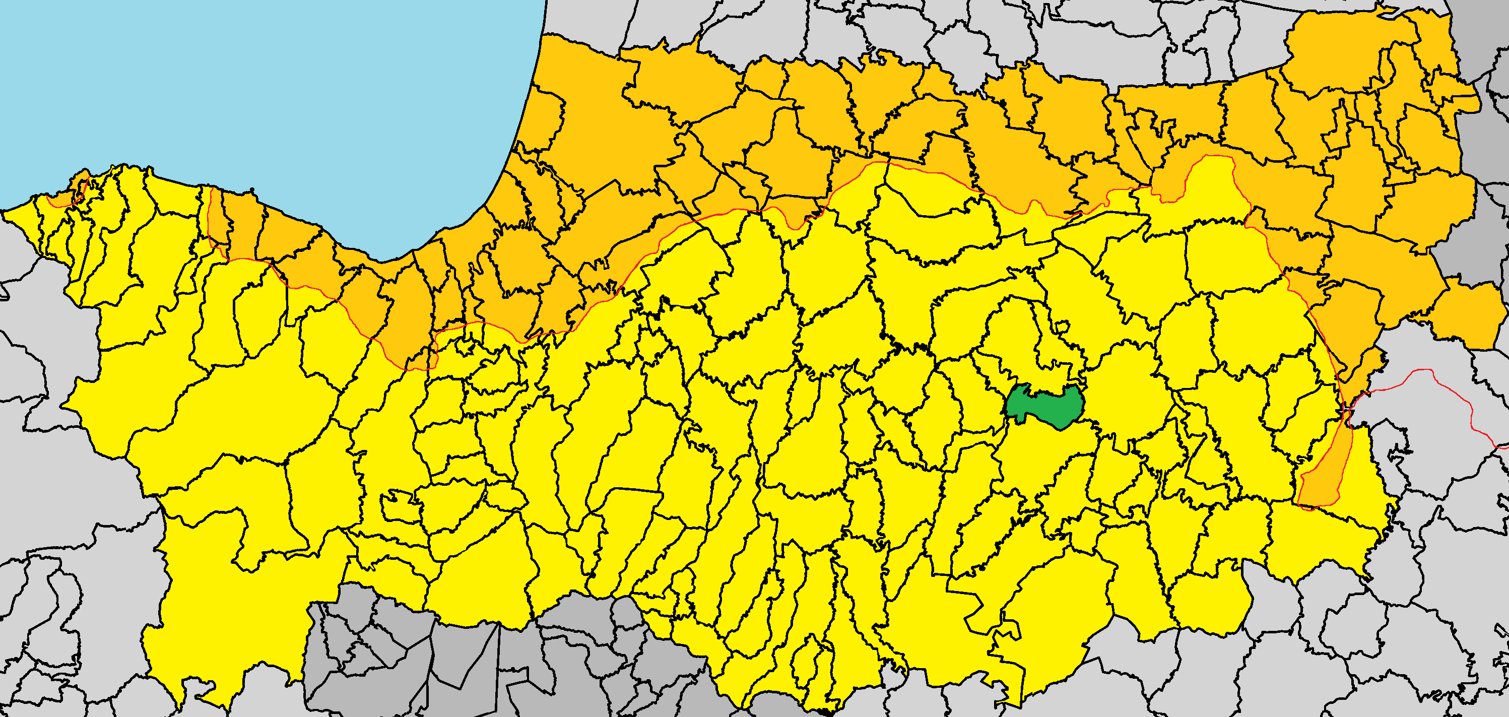 Psimolofou in Nicosia District.